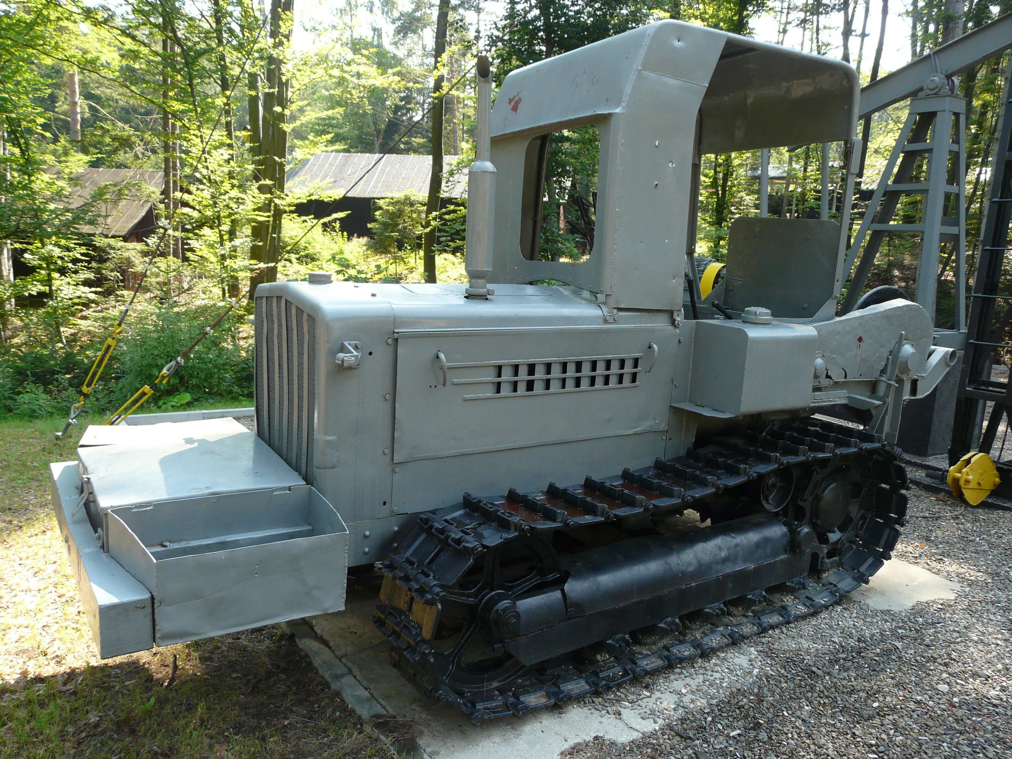 KD-35-tractor in a polish museum (2012)